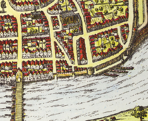 Clipping from the historical view of Bremen, Germany, by Georg Braun and Frans Hogenberg, showing the area next to the street Tiefer next to the Weser river as well as the former monastery St. Johann around the year 1598.